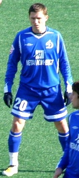 Igor Semshov in action for FC Dinamo Moscow